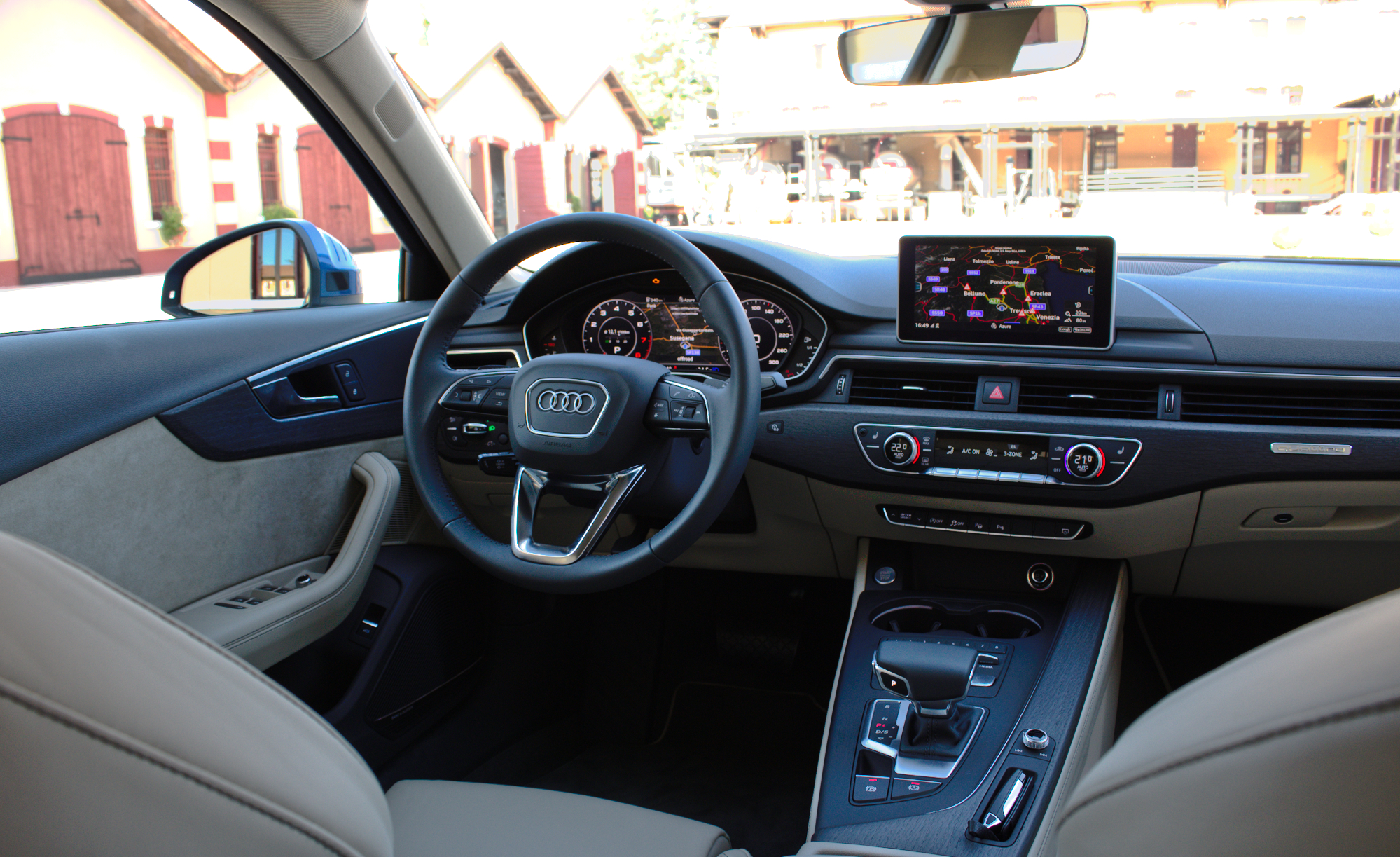 2015 Audi A4 B9 2.0 TFSI quattro 185 kW S line Cockpit